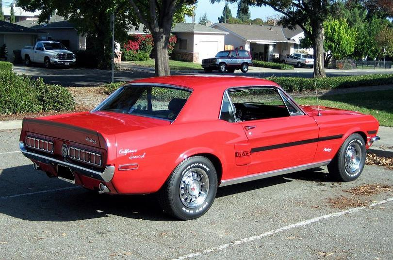 1968 Red GT/CS Mustang - rear view. Car owned by JH. Photo by JH. Image uploaded to Wikipedia by JH.